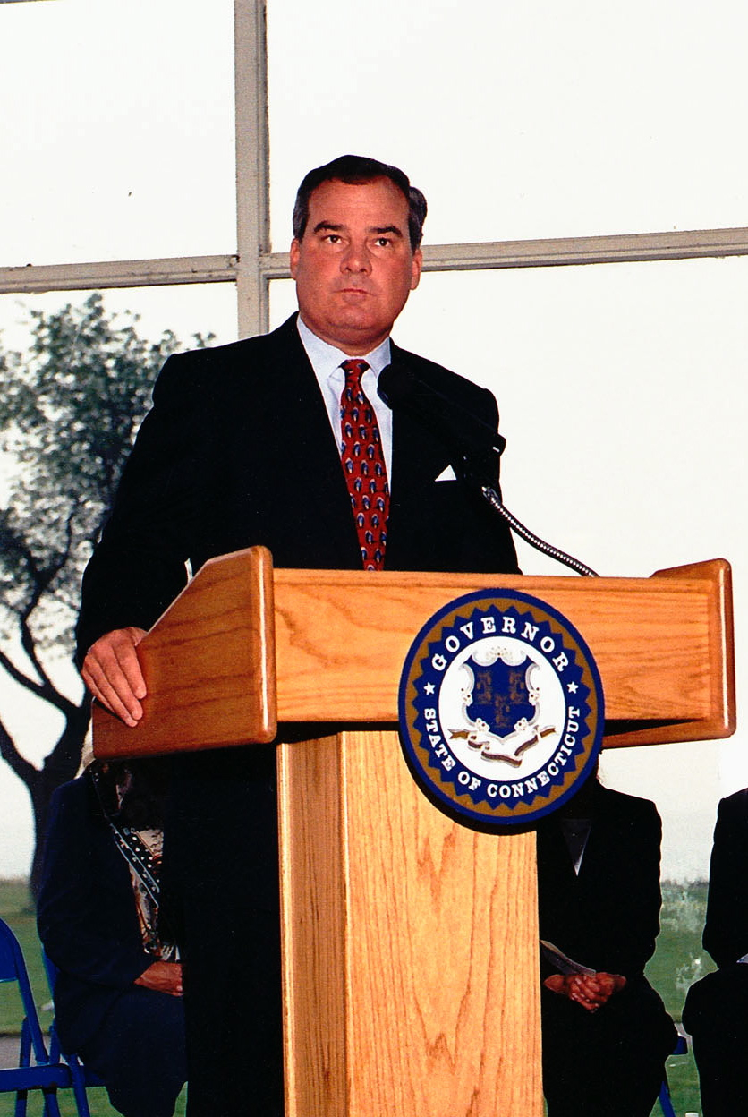 Governor John G. Rowland addresses the gathering at Connecticut's 9-11 Living Memorial. Attorney General Richard Blumenthal sits to the right. This is at the second memorial service at the site.